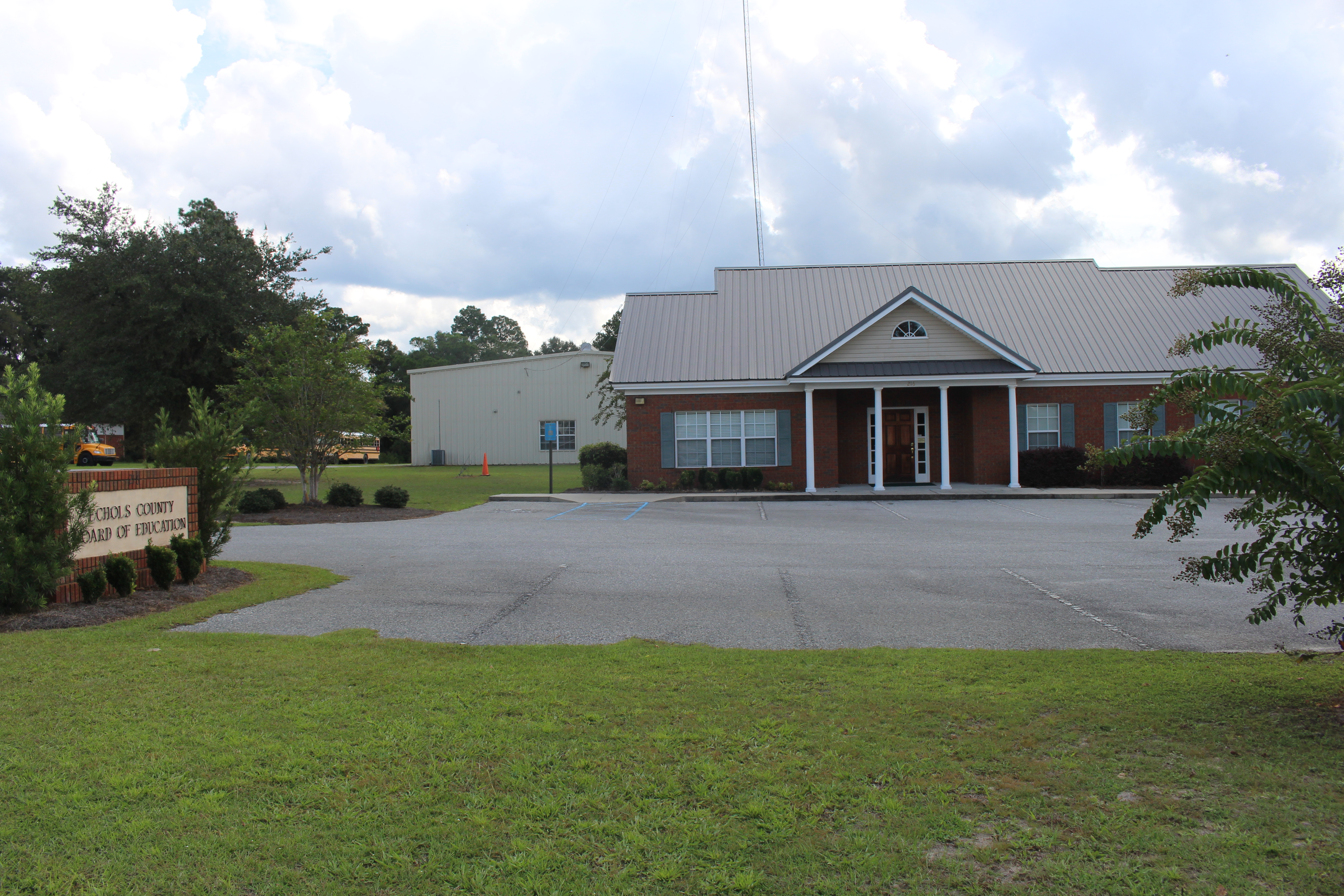 Echols County Board of Education, Statenville, Echols County, Georgia